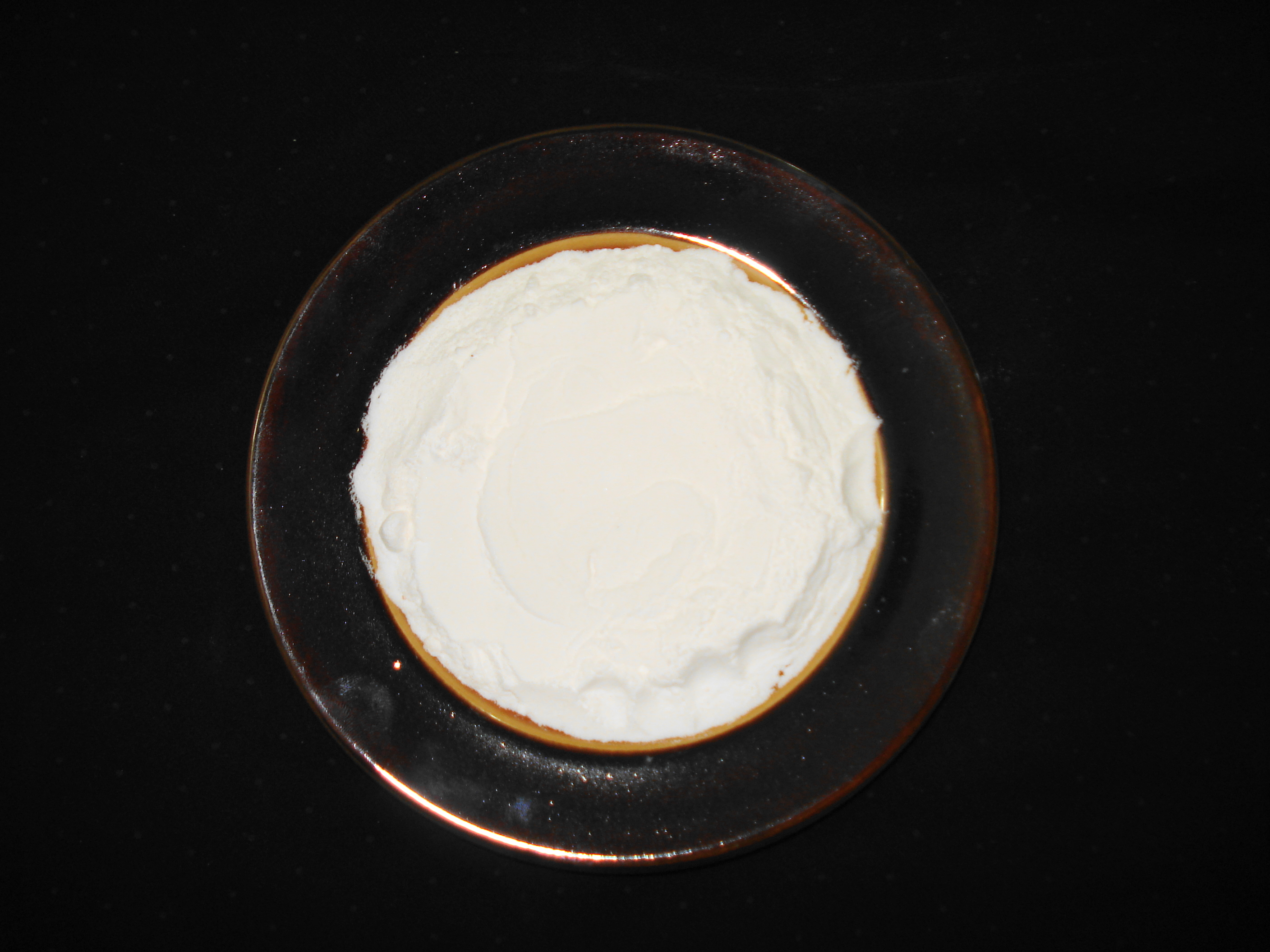 Metha soda, baking soda